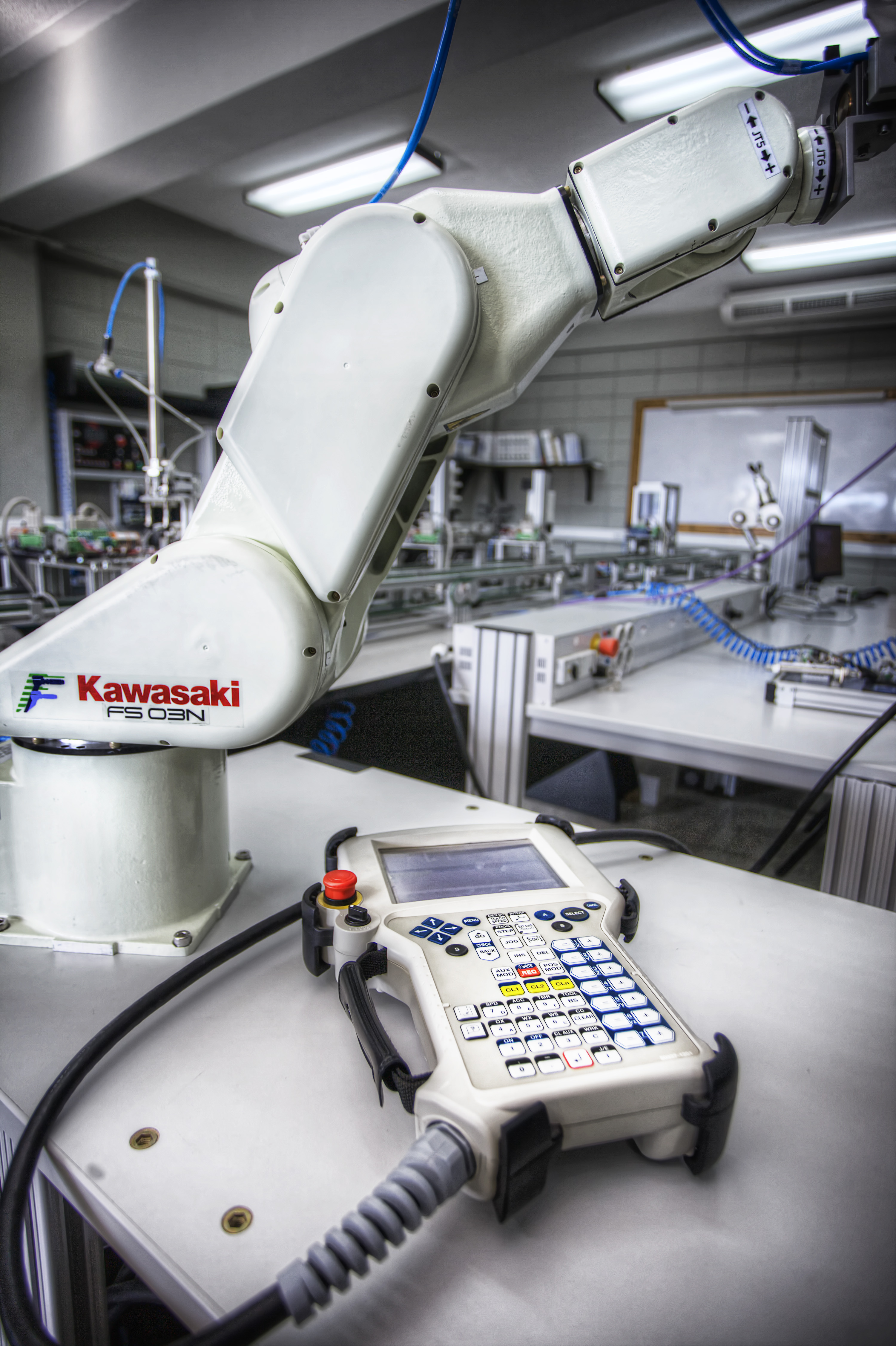 Brazo robótico, Laboratorio de Mecatrónica.